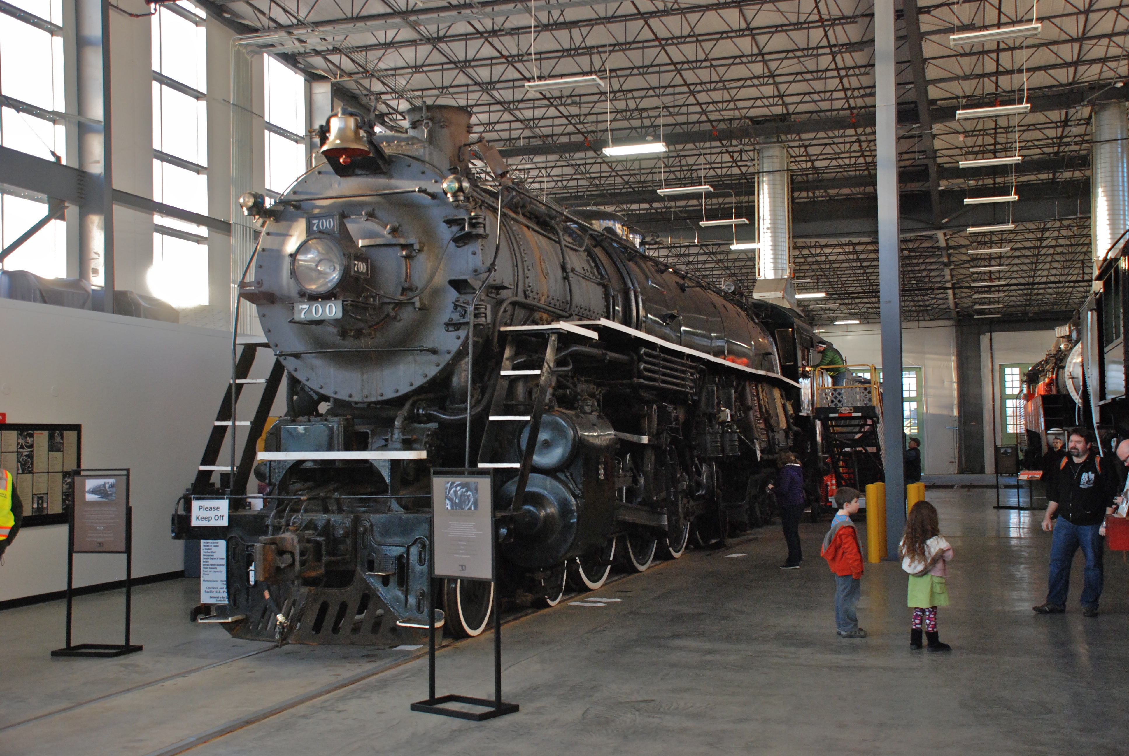 Spokane, Portland & Seattle 700 inside the Oregon Rail Heritage Center, in Portland, Oregon. Owned by the City of Portland since 1958, the SP&S 700 was added to the U.S. National Register of Historic Places in 2006.